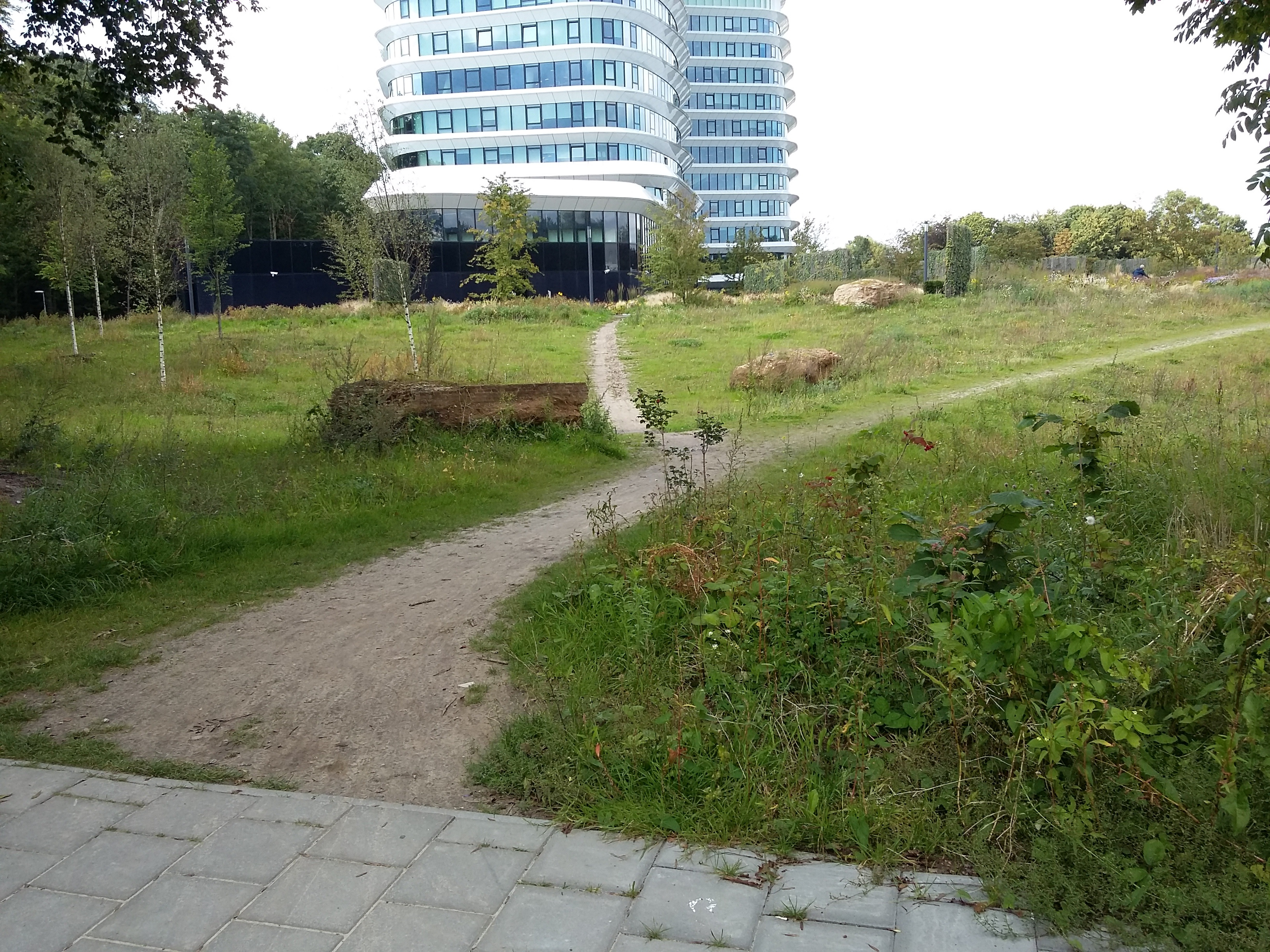 Desire path in Groningen, the Netherlands.